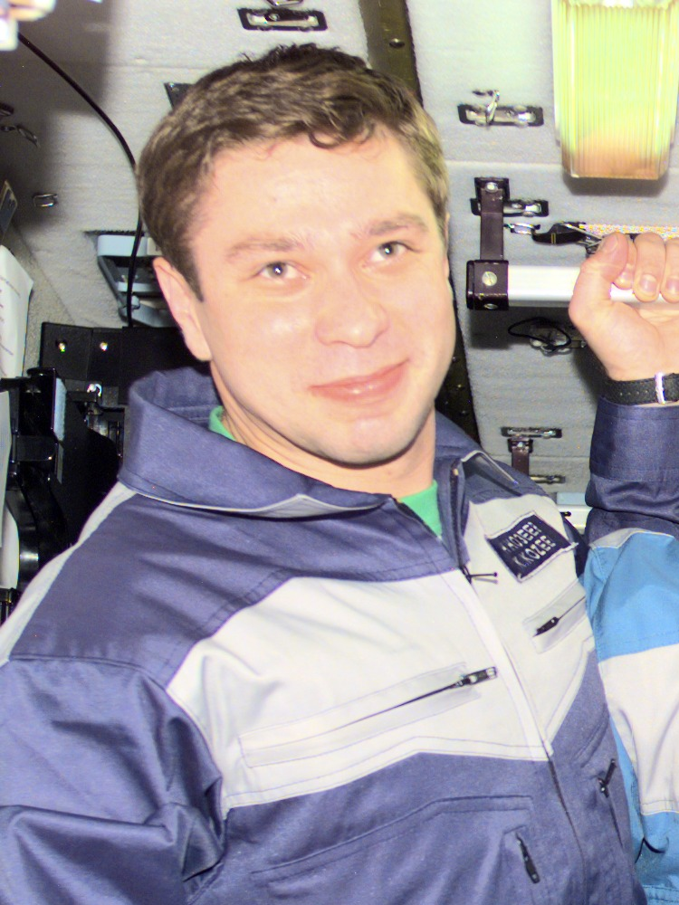 Konstantin Kozeyev in the Zvezda Service Module on the International Space Station (ISS) during the Soyuz TM-33 taxi flight.